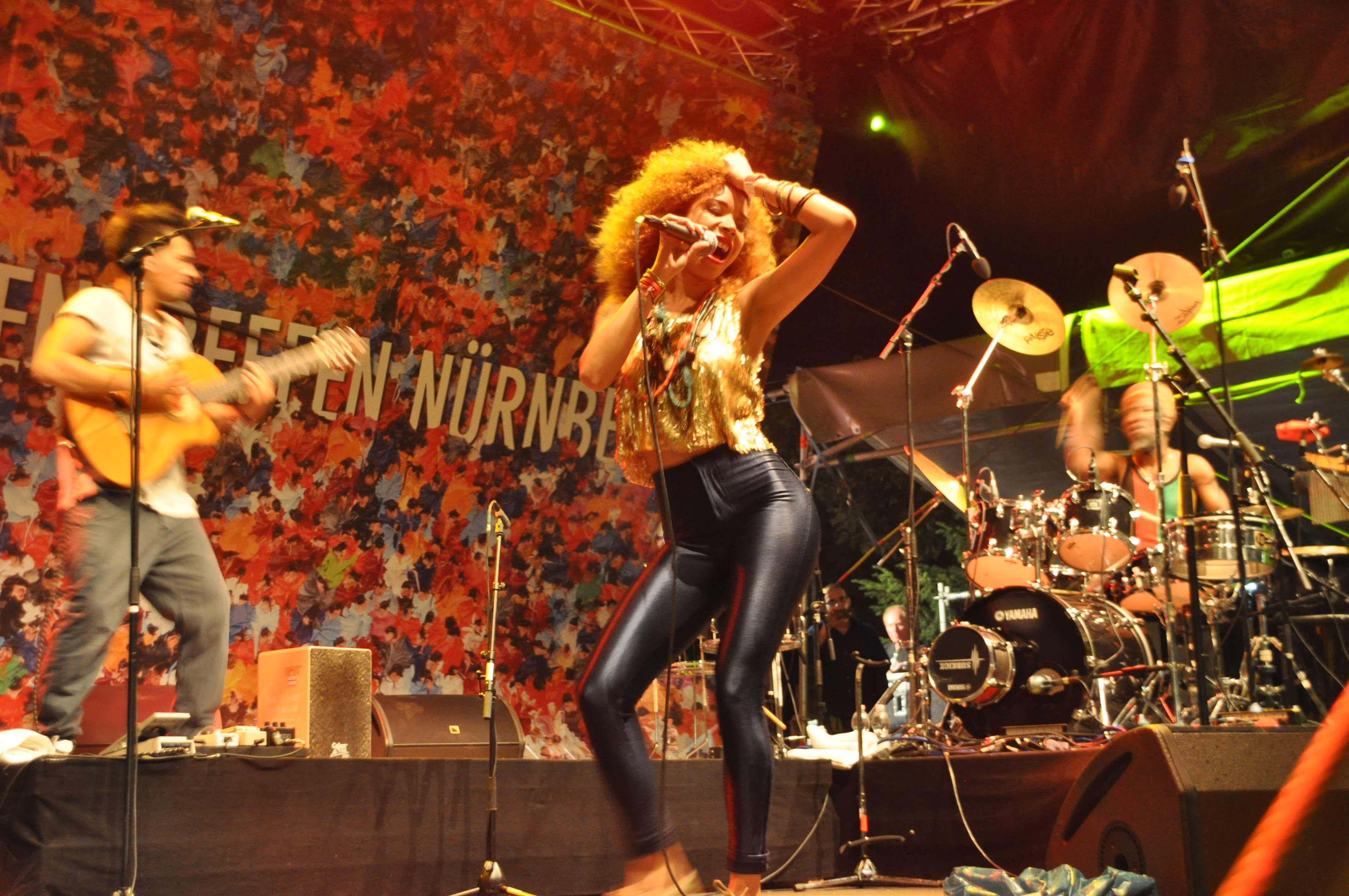 Flavia Coelho (Brazil), appearance at the 38th music festival "Bardentreffen" 2013 in Nuremberg, Germany, Schuett Isle stage